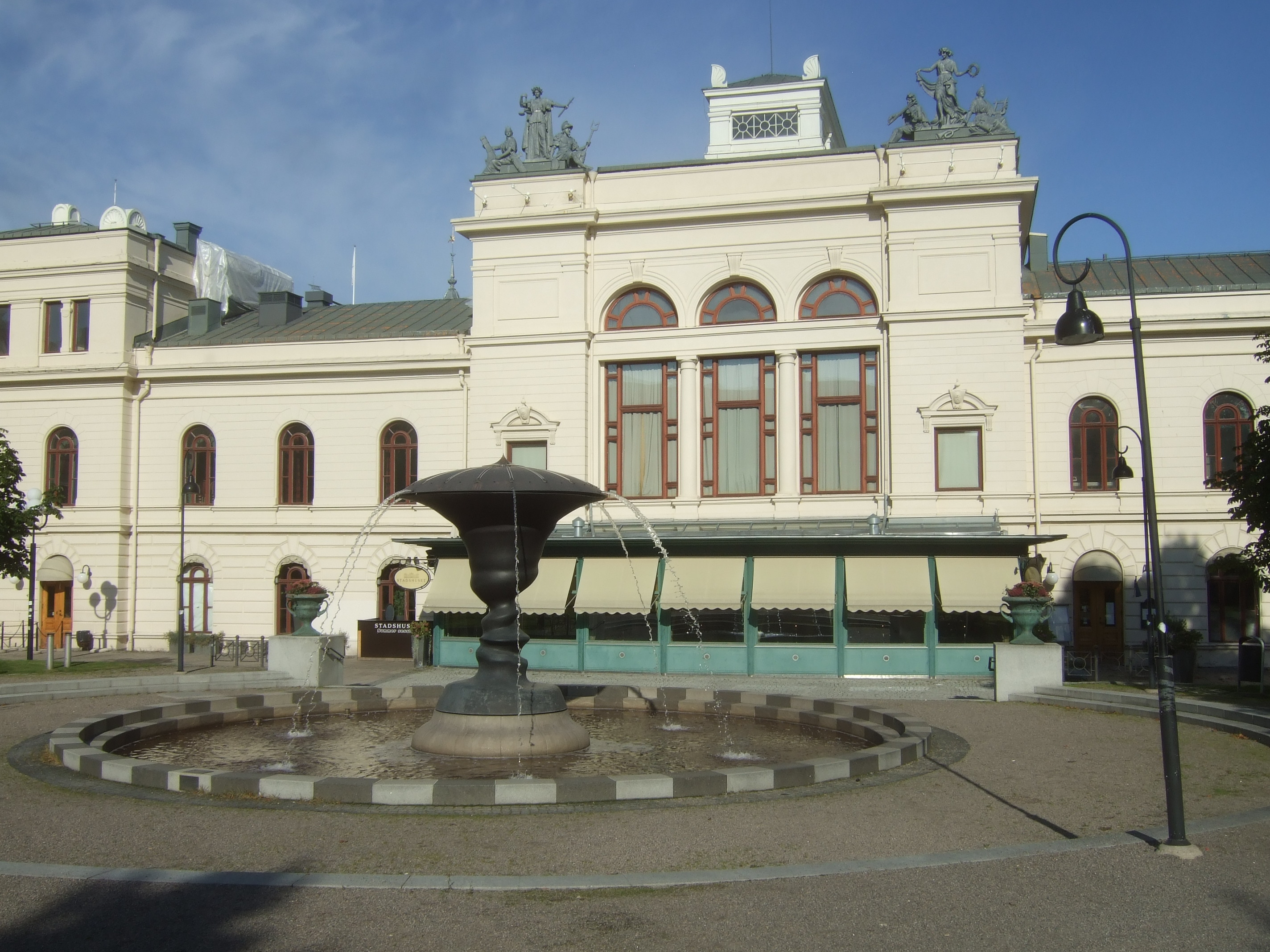 The park side of the city hall or "Stadshuset" at Rådhusgatan 22 in Sundsvall, viewed from south